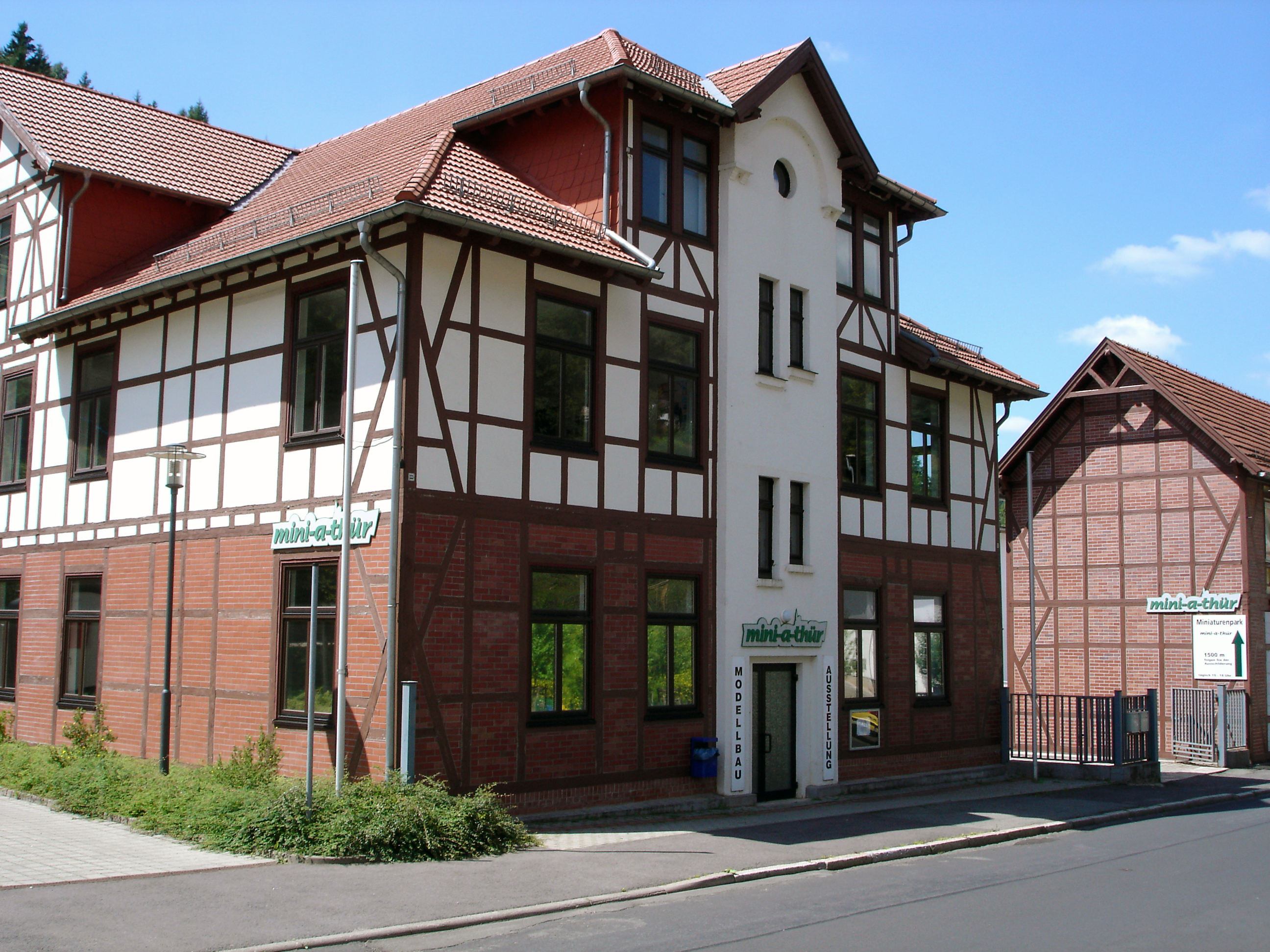 Mini-a-thür winter showroom